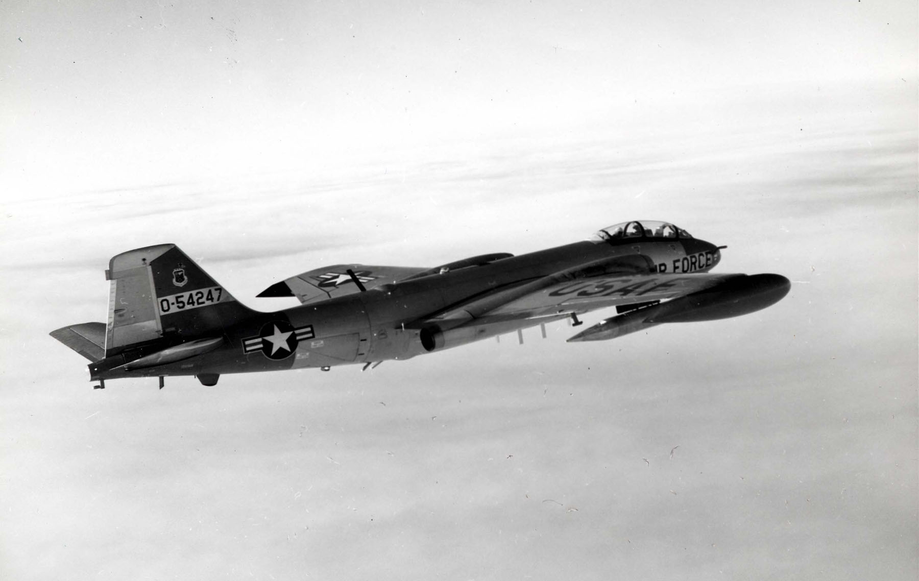 Martin EB-57E Canberra in flight